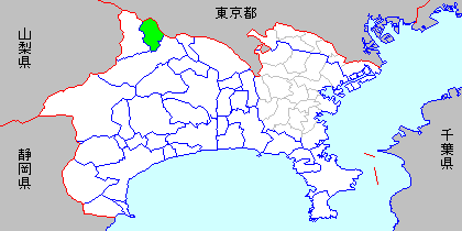 Map of former Sagamiko Town, Kanagawa prefecture, Japan (now part of Sagamihara city)